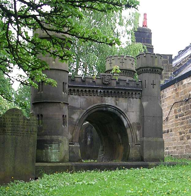 Bramhope Tunnel Monument in All Saints' parish churchyard, Kirkgate, Otley, West Yorkshire, England. It commemorates the men who died between 1845 and 1849 whilst building the Bramhope Tunnel on the Leeds and Thirsk Railway. It is a replica of the north portal of the tunnel.